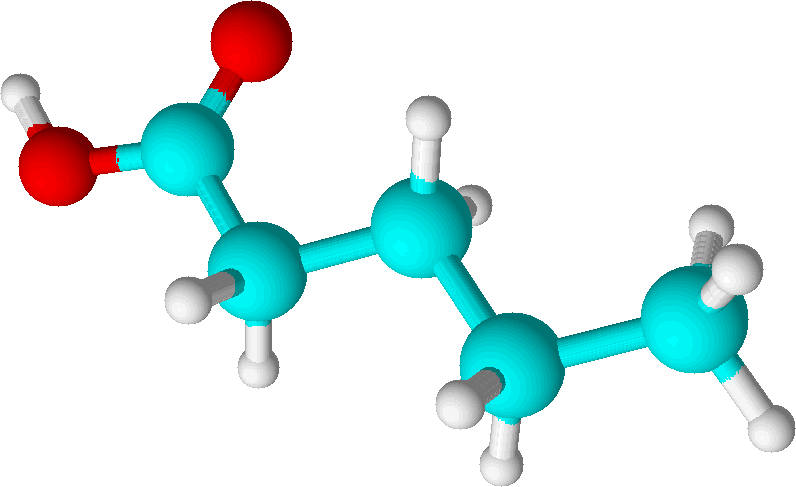 3D-structure of valeric acid